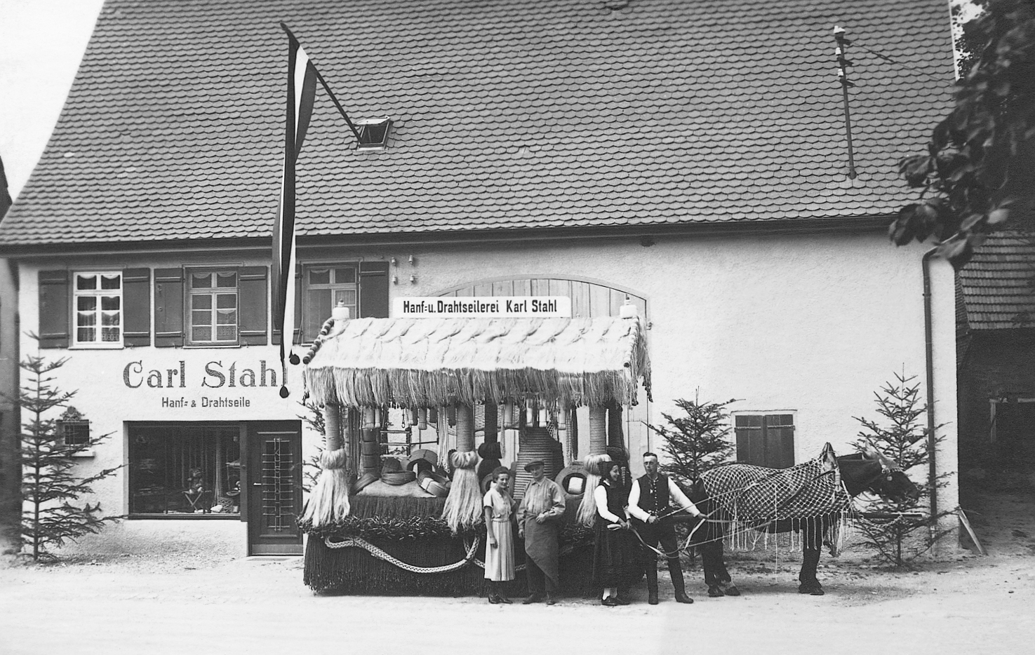 Carl Stahl Company building 1933